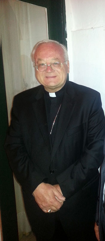 Ilario Antoniazzi, Arcbishop of Tunis